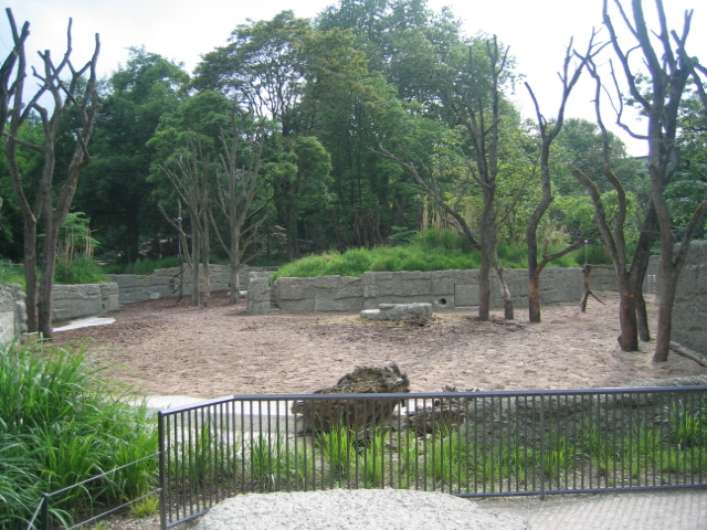 Sauter Garden rhino exhibit